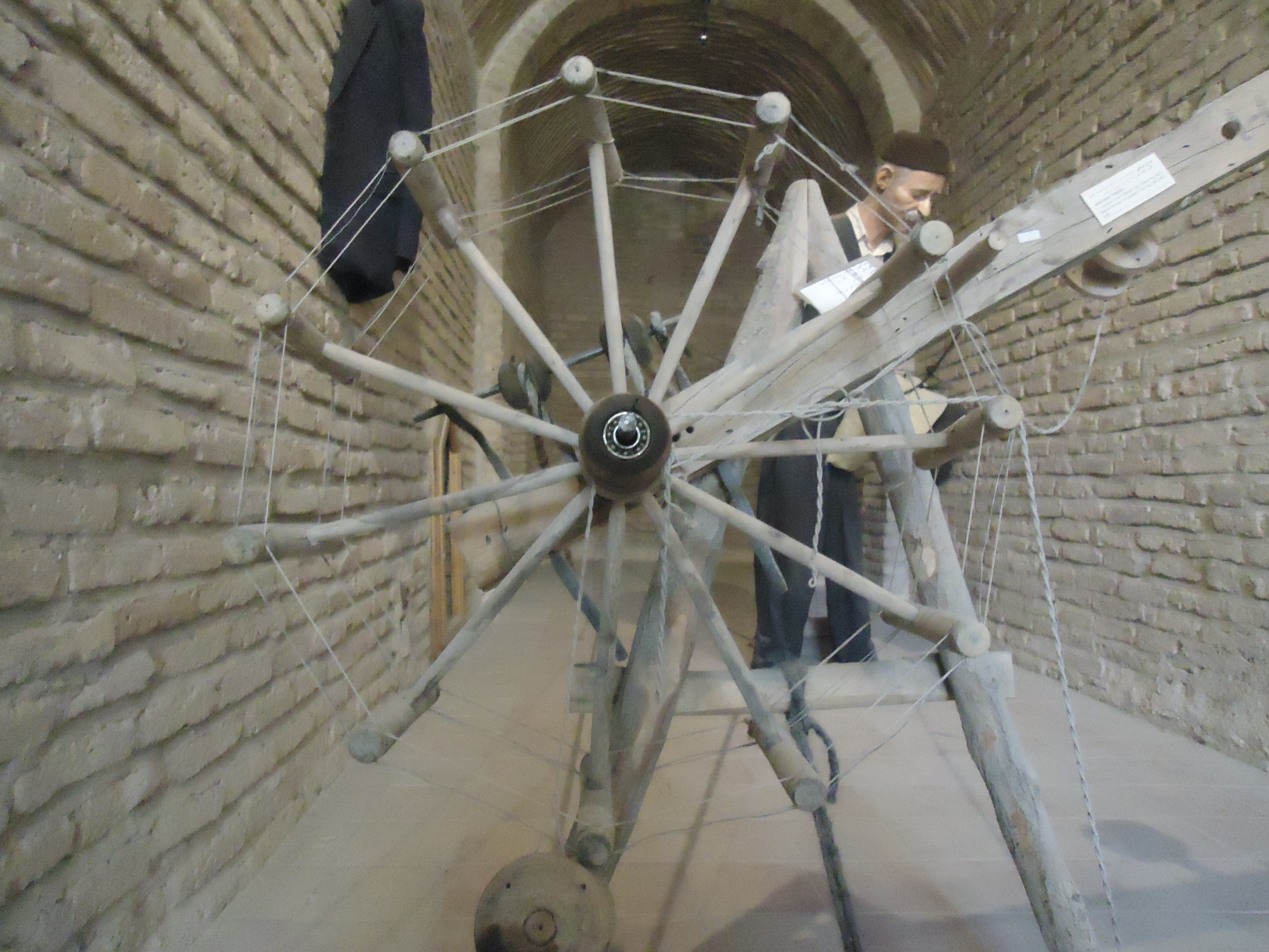 Yarning